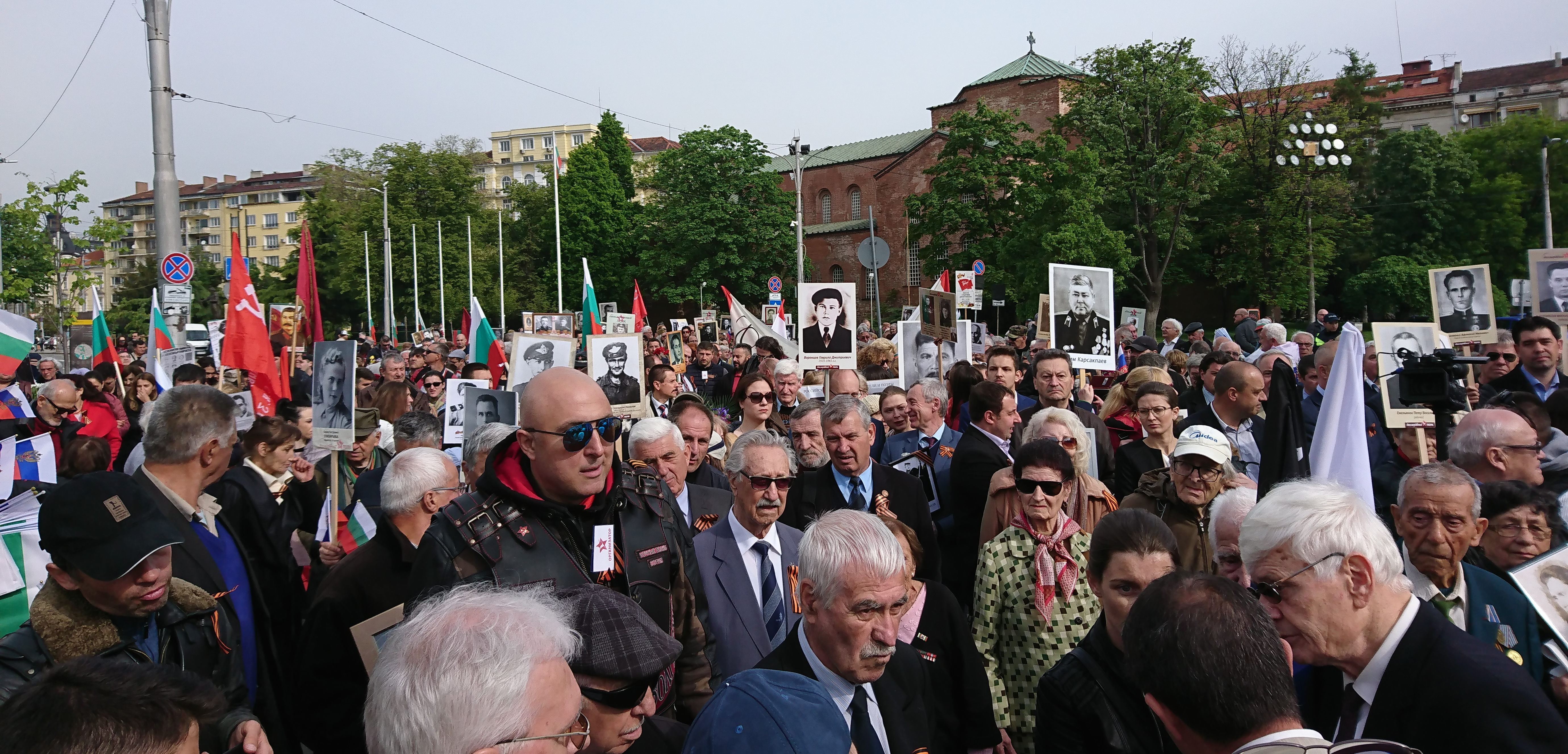 The Immortal Regiment in Sofia in 2019, at the square next to the Orthodox cathedral "Saint Alexander Nevski"